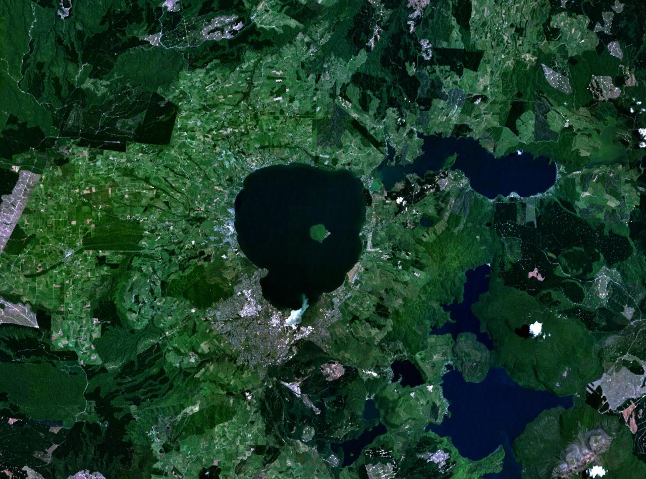 NASA World Wind false-colour landsat-7 composite satellite photo of Lake Rotorua in New Zealand. Category:Taupo Volcanic Zone